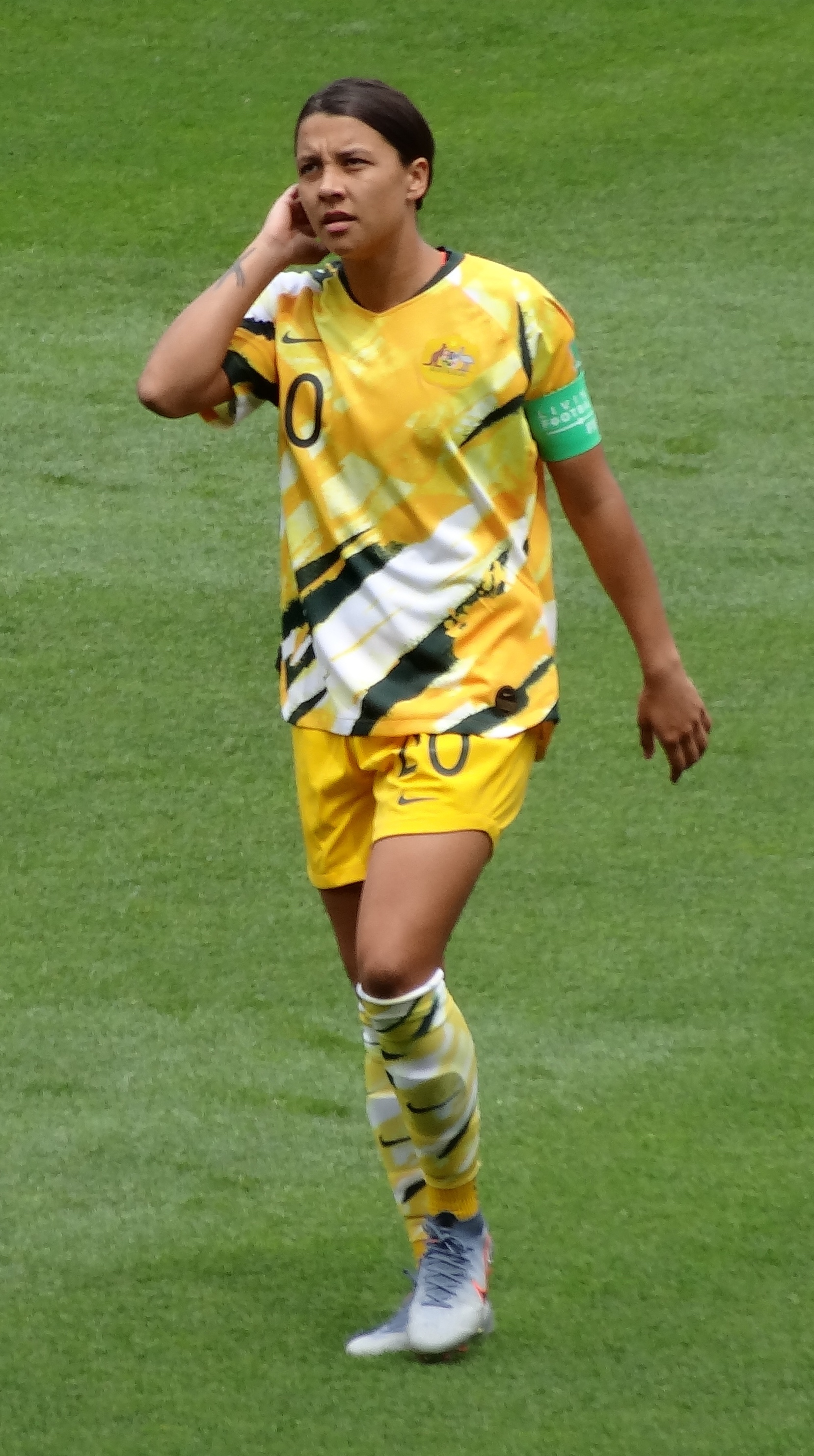 Sam Kerr (Women World Cup France 2019)